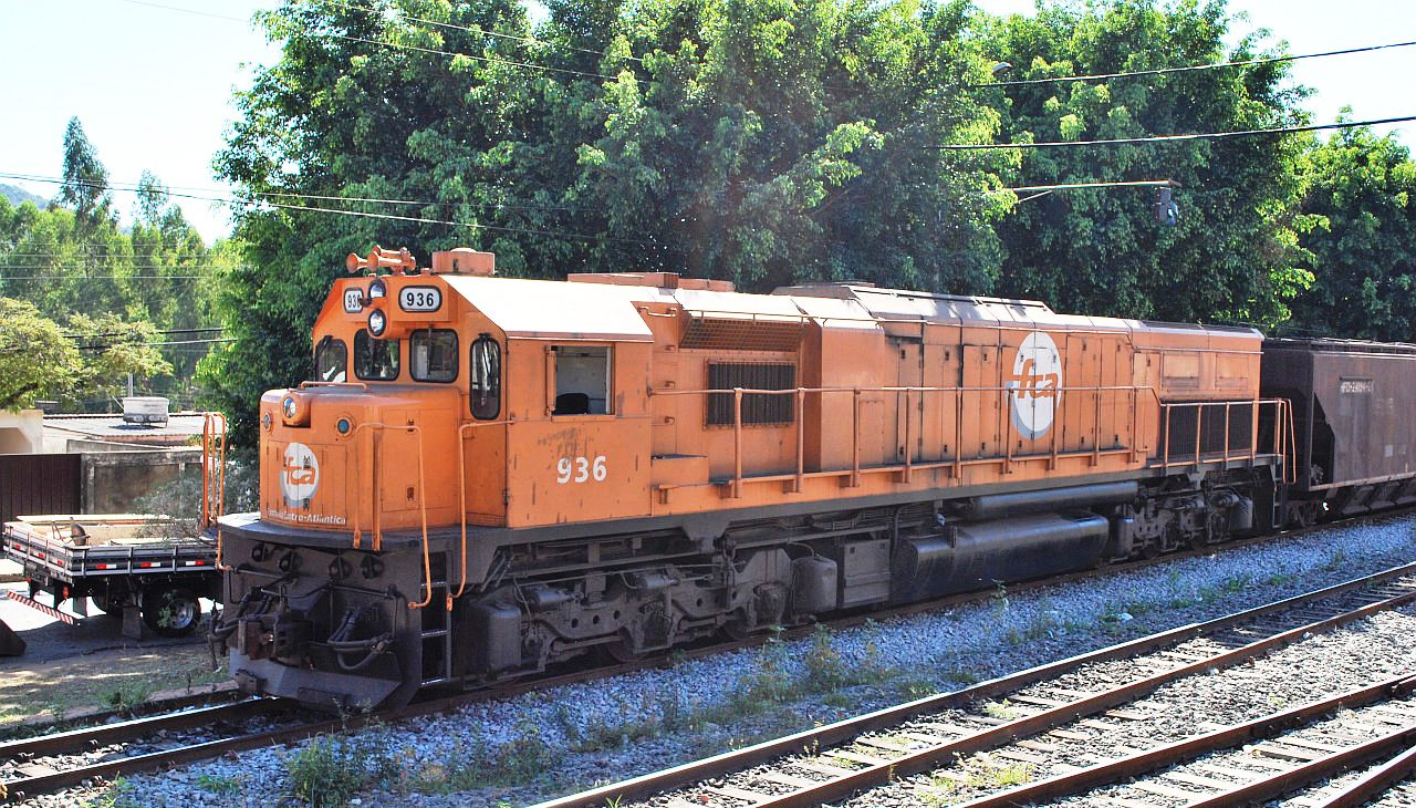 Diesel-Electric Locomotive GT26CU-2 C-C # 936 - built by Villares to EFVM in 1985 transferred to the FCA in 2002, currently boasting the second pattern painting (orange). Itaúna-MG-Brazil.